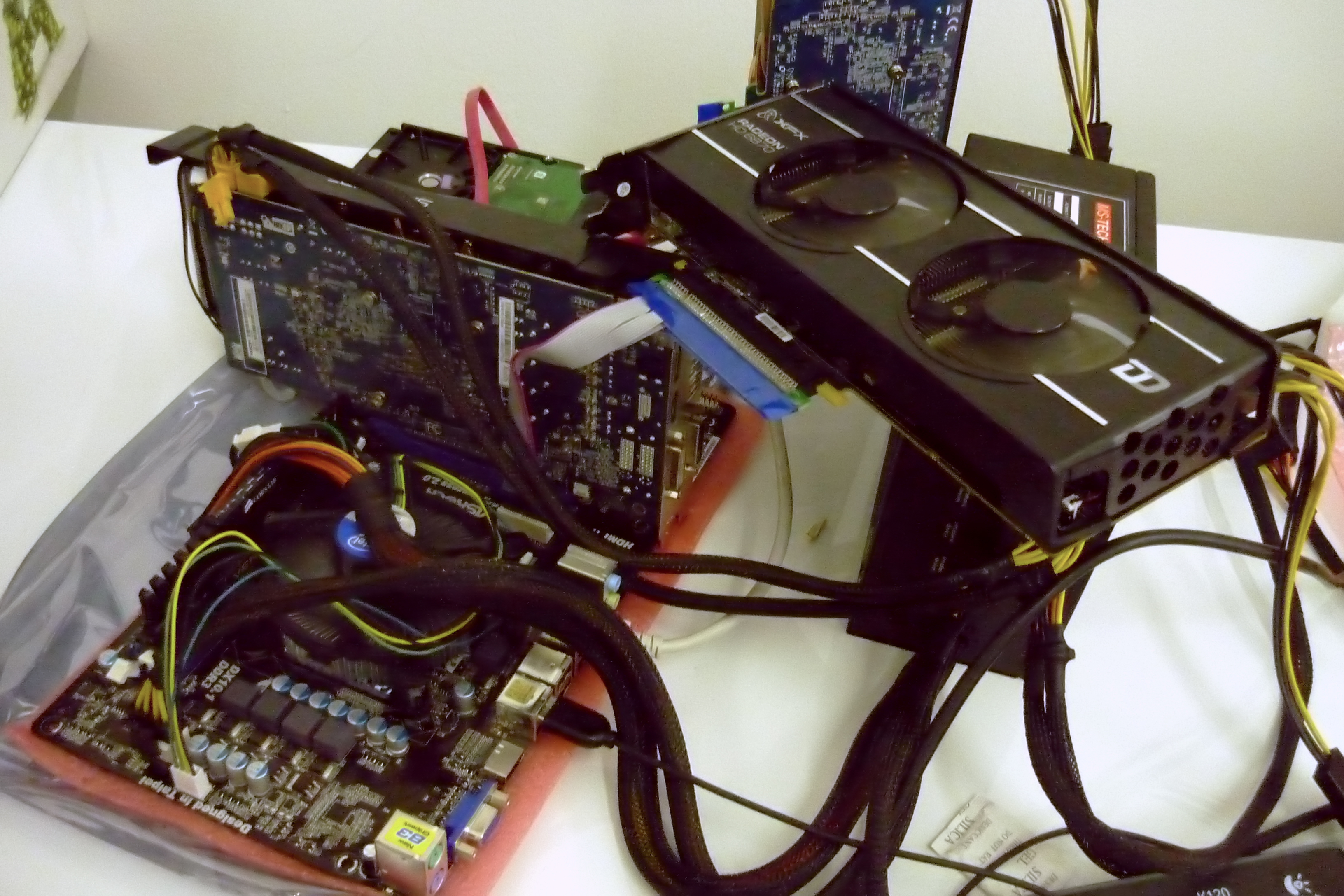 A Bitcoin miner rig in Austria in October, 2012.